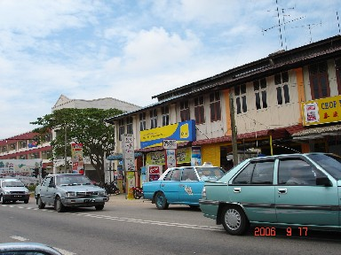 Author: Lim Thiam Poh Date: Sep 2006 Title: Shop Parit Bakar